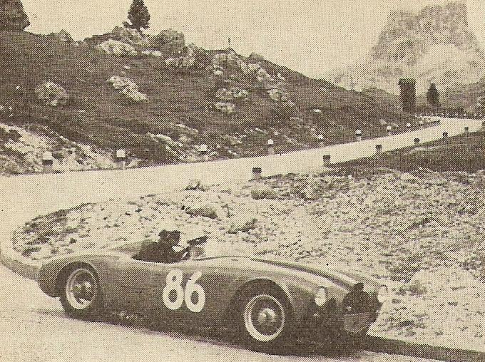 Lancia D23 of Piero Taruffi Coppa d' Oro delle Dolomiti on 12 July 1953